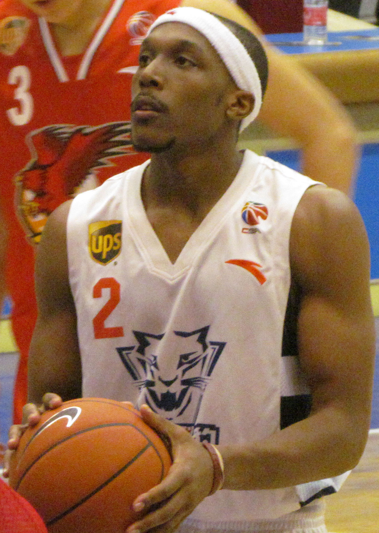 Josh Akognon at the free throw line.